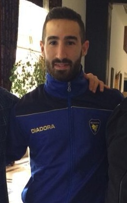 Me with Umut i cropped me